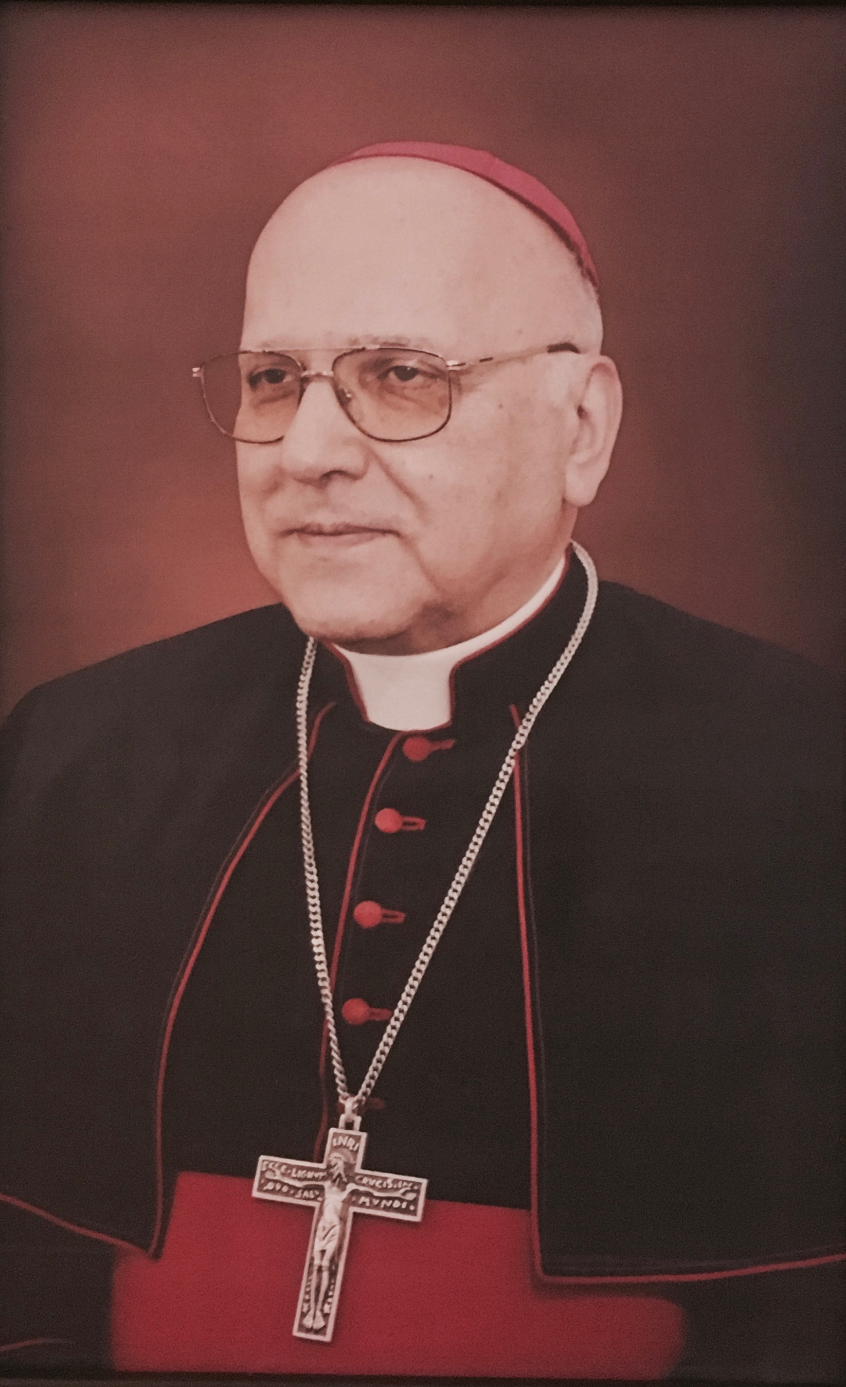 Portrait Michel Sabbah (Latin Patriarchate of Jerusalem)